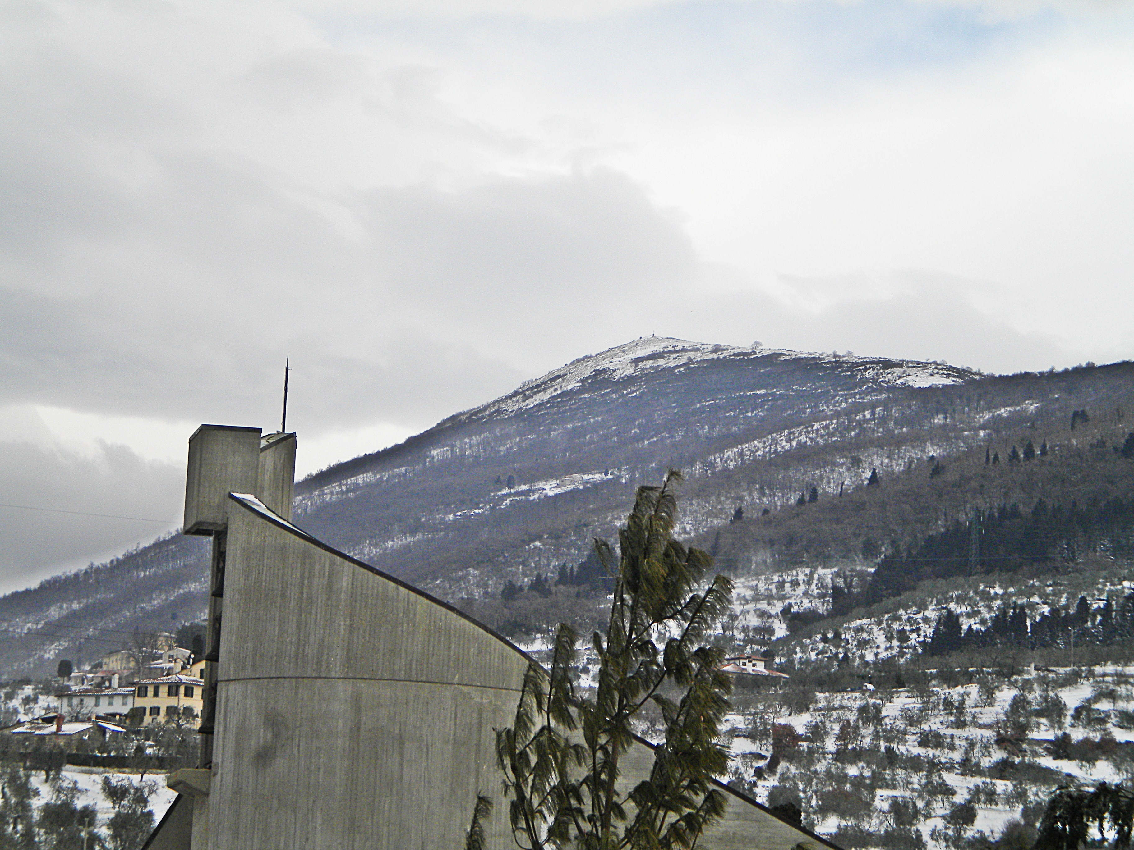 Mt.Retaia with snow